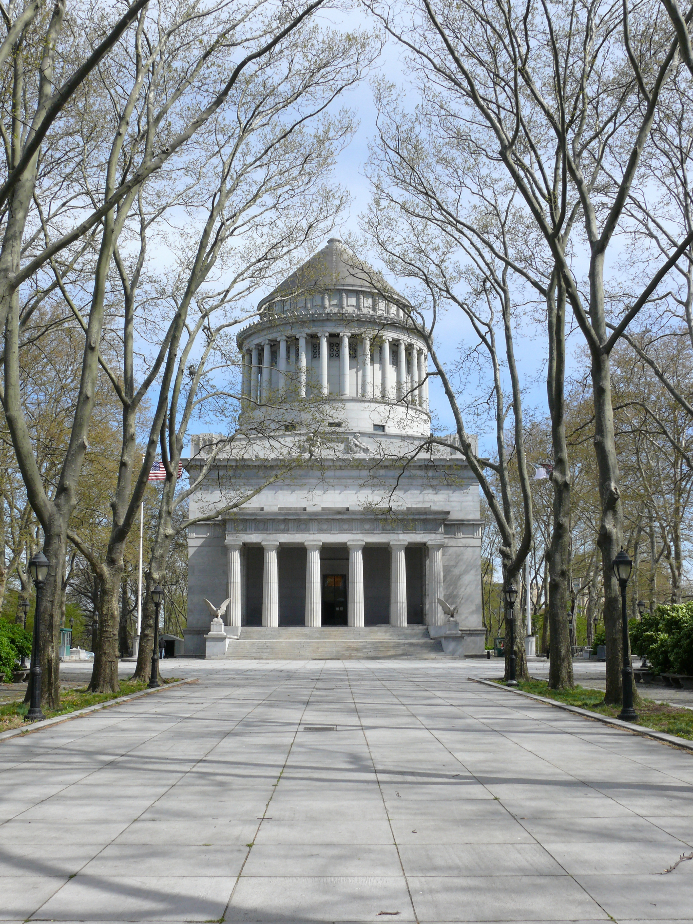 Grant's Tomb a mausoleum containing the bodies of Ulysses S. Grant (1822–1885), American Civil War General and 18th President of the United States, and his wife, Julia Dent Grant (1826–1902).